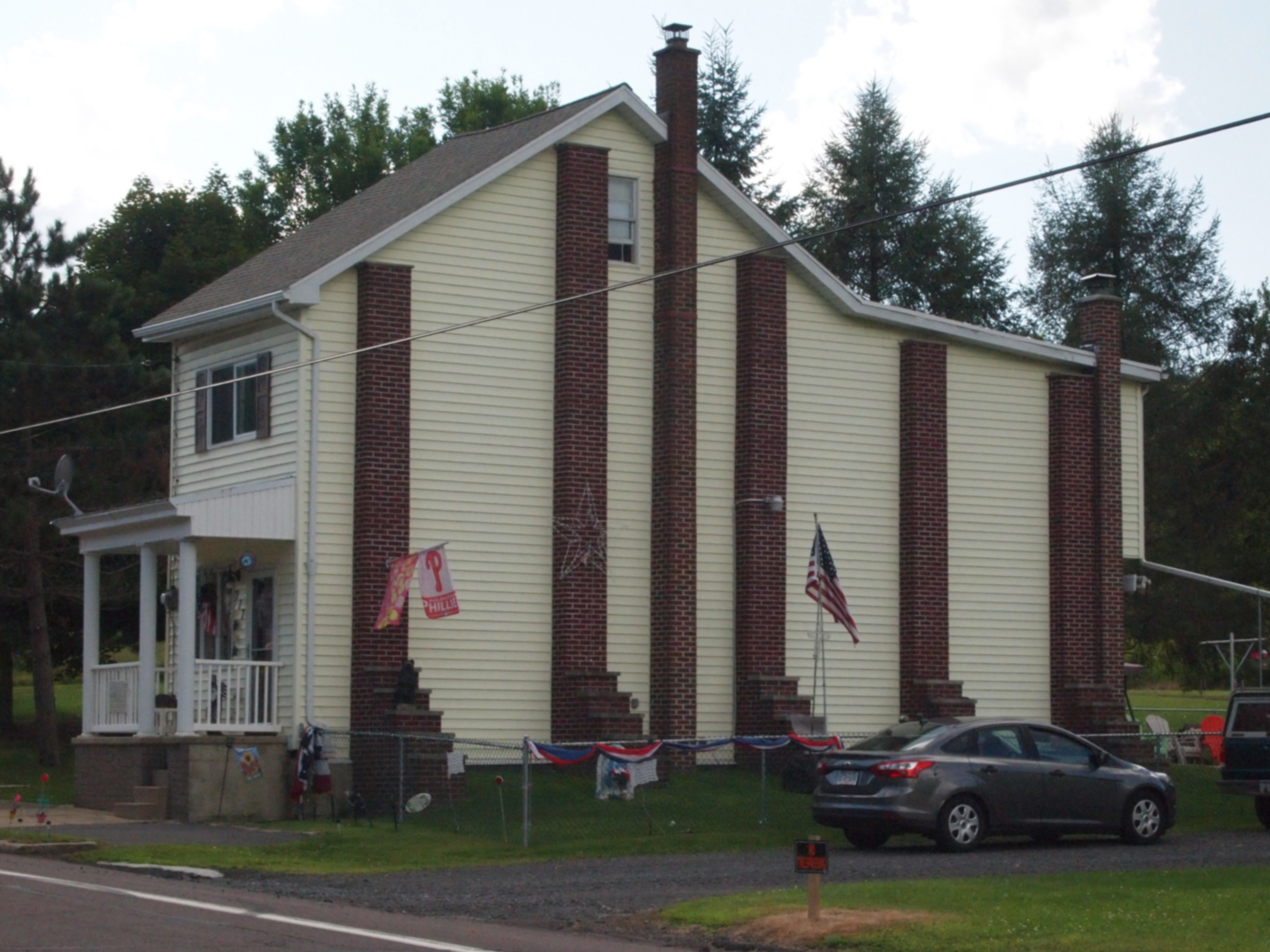 Standalone row house in Centralia, Pennsylvania. The 5 buttresses to support the wall were constructed after its neighboring house was taken down.